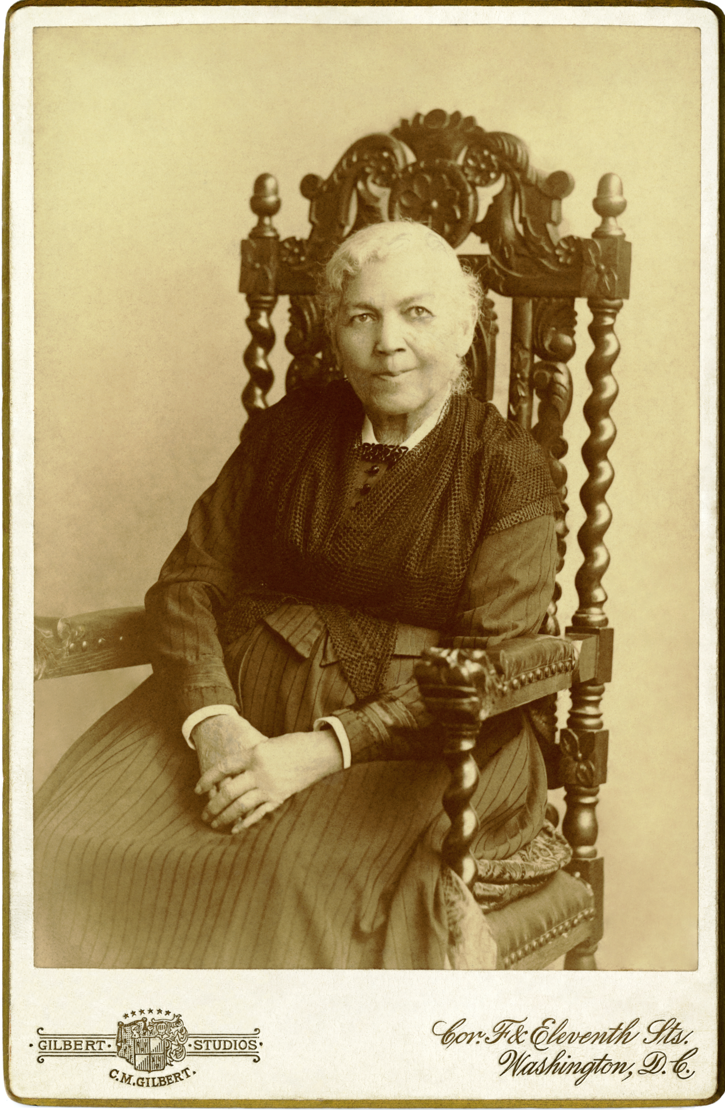 Harriet Jacobs's only known formal portrait.